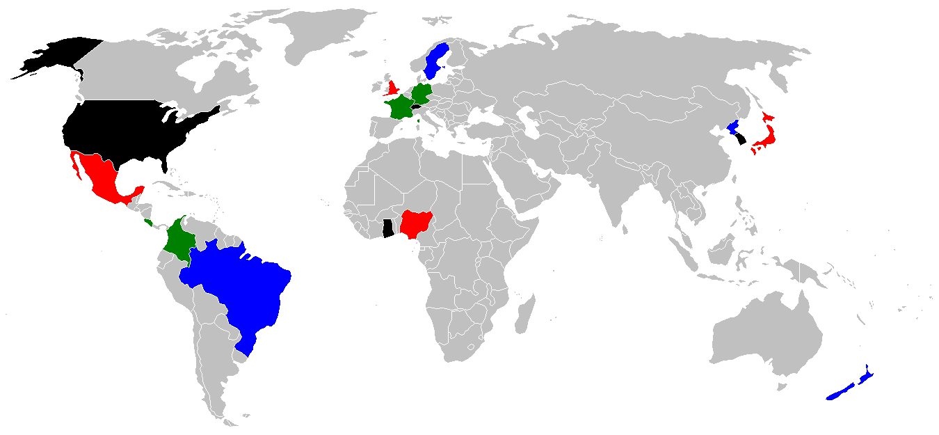 Participants of en:2010 FIFA U-20 Women's World Cup. Green: Group A; blue: Group B; red: group C; black: Group D.